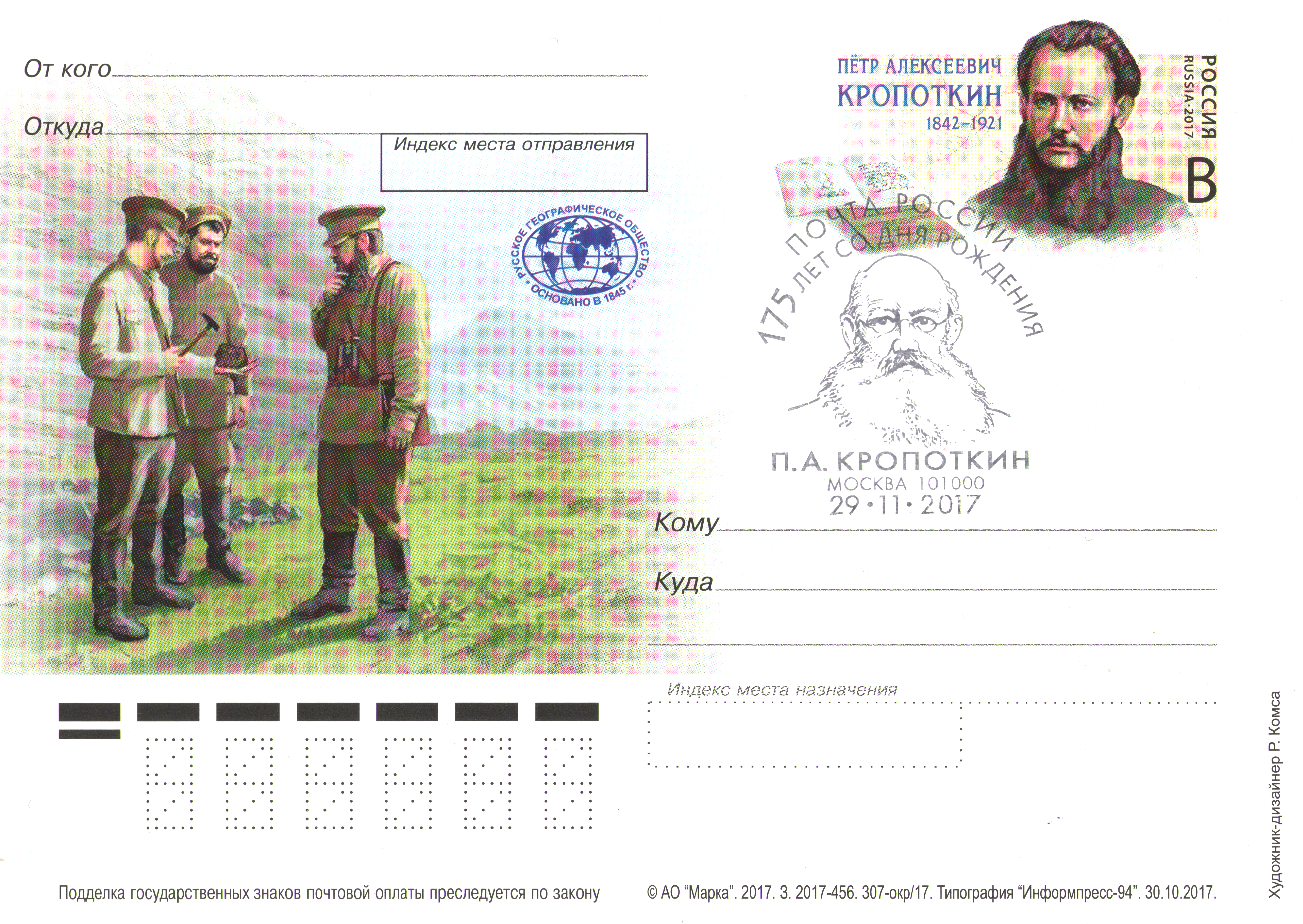 Russian postal card of Pyotr Kropotkin with the specially issued B stamp.